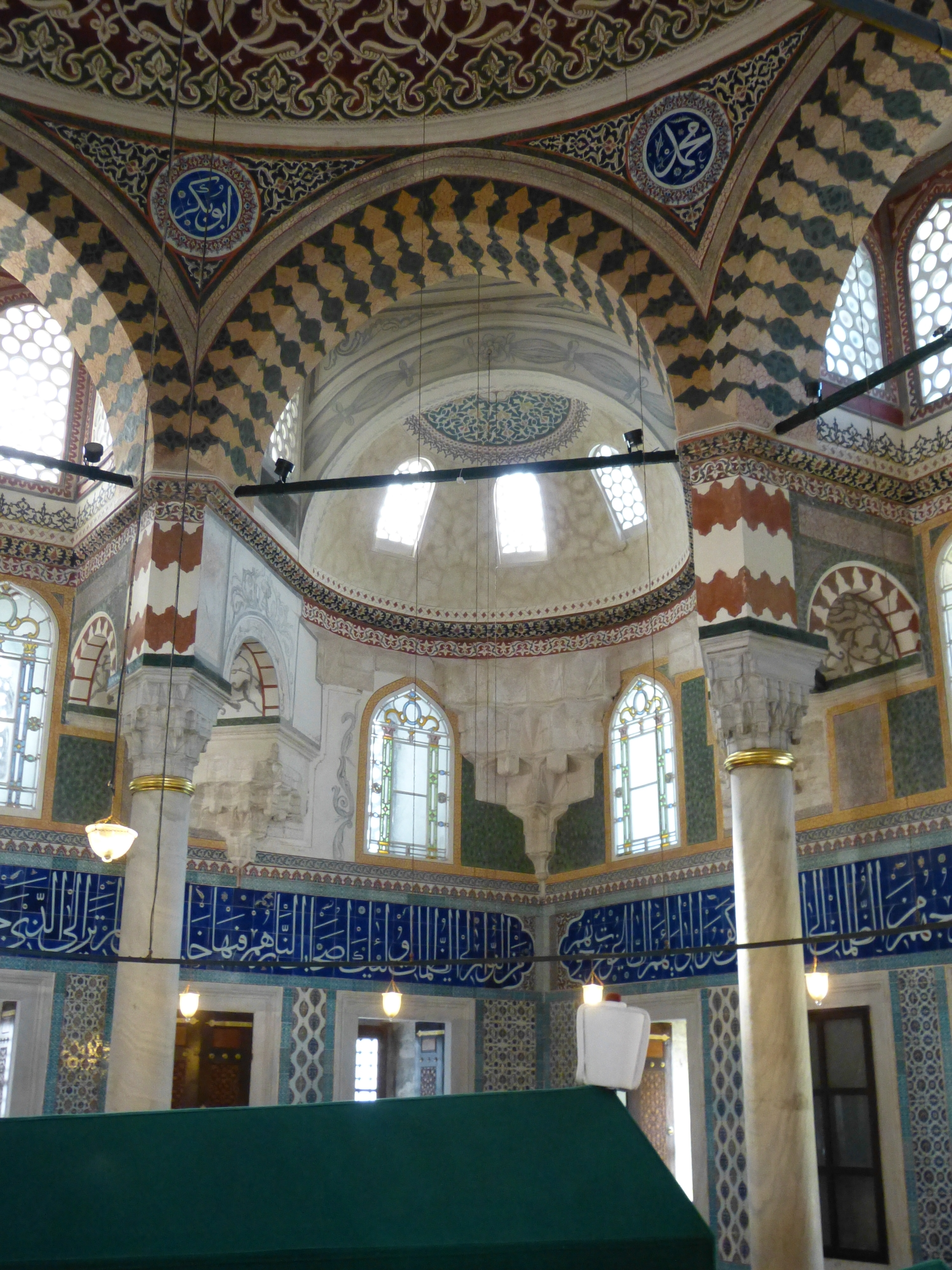 Türbe (Tomb) of Sultan Selim II. (1524–1574)